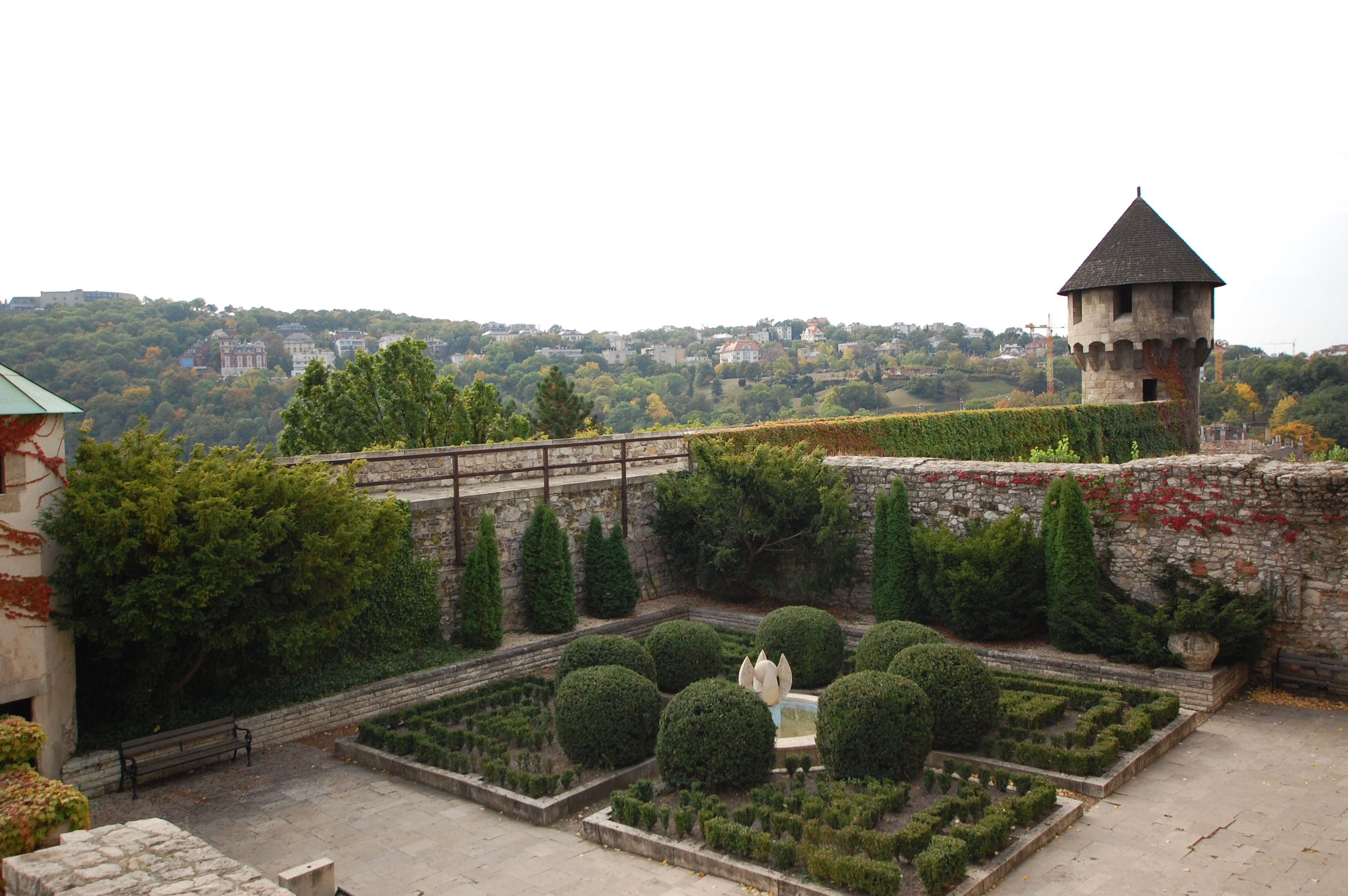 Buda castle garden and Buzogány Tower